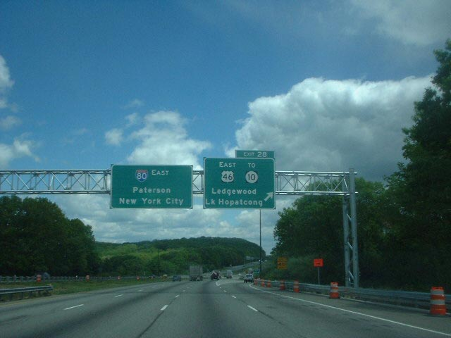 Interstate 80 - New Jersey eastbound at exit 28 for U.S. Route 46 in Roxbury Township